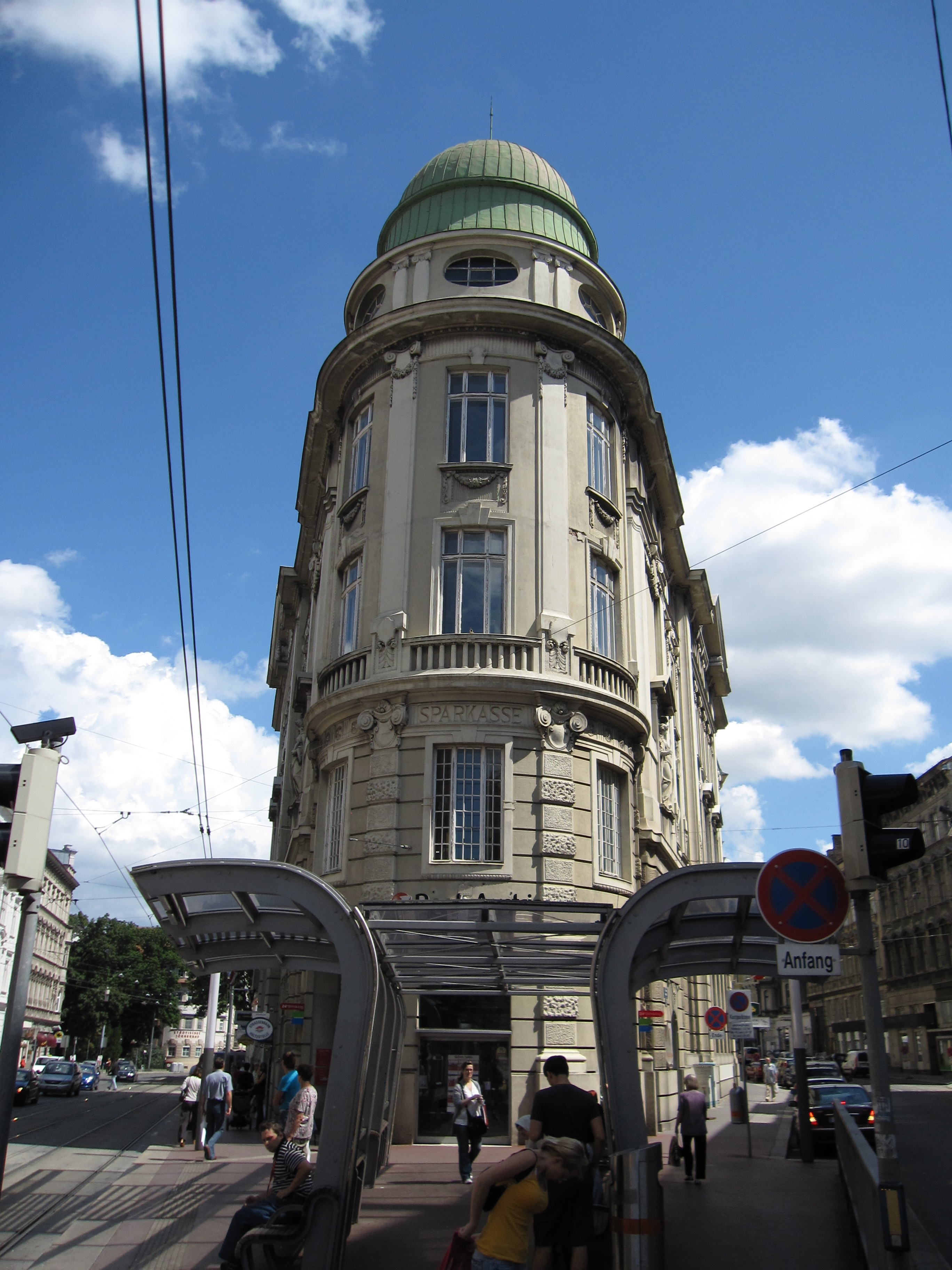 District museum of Hernals, Vienna